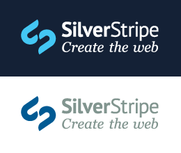 SilverStripe logo